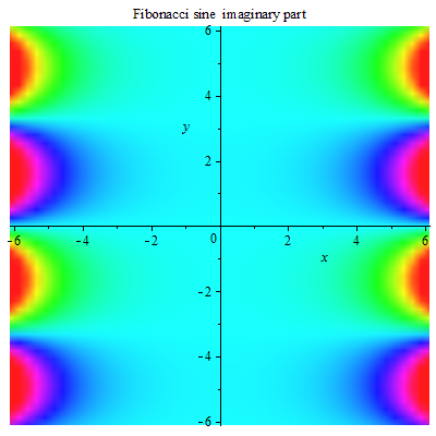 Fibonacci hyperbolic sine imaginary part density plot